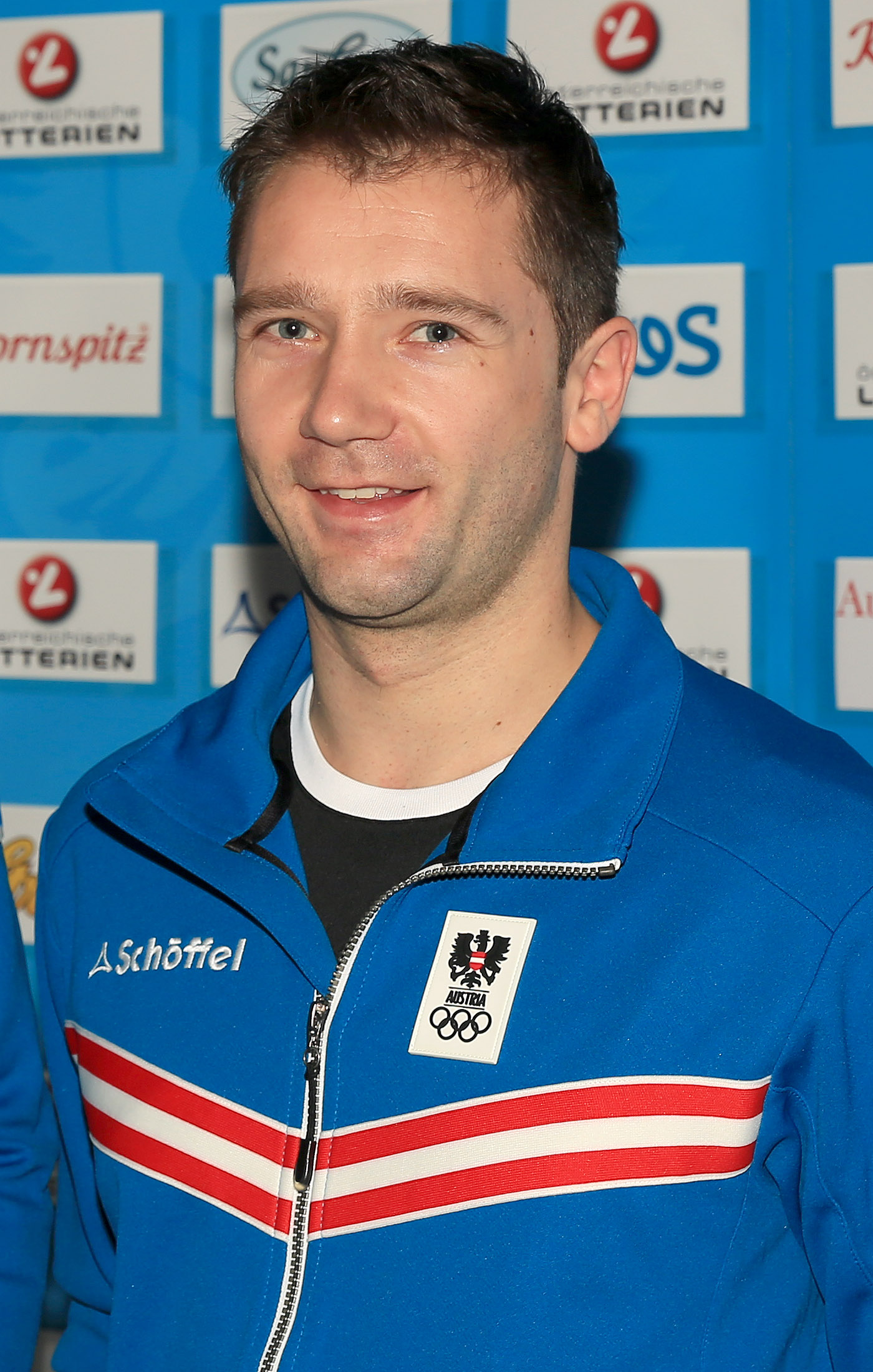 Georg Fischler (luge) at the outfitting of the Austrian team for the 2014 Winter Olympics (Hotel Marriott in Vienna, Austria.